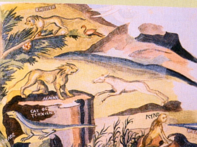 Detail of Nile mosaic from Palestrina (section 6). Copy of Cassiano dal Pozzo (around 1630). The Royal Collection 1994, Windsor castle.